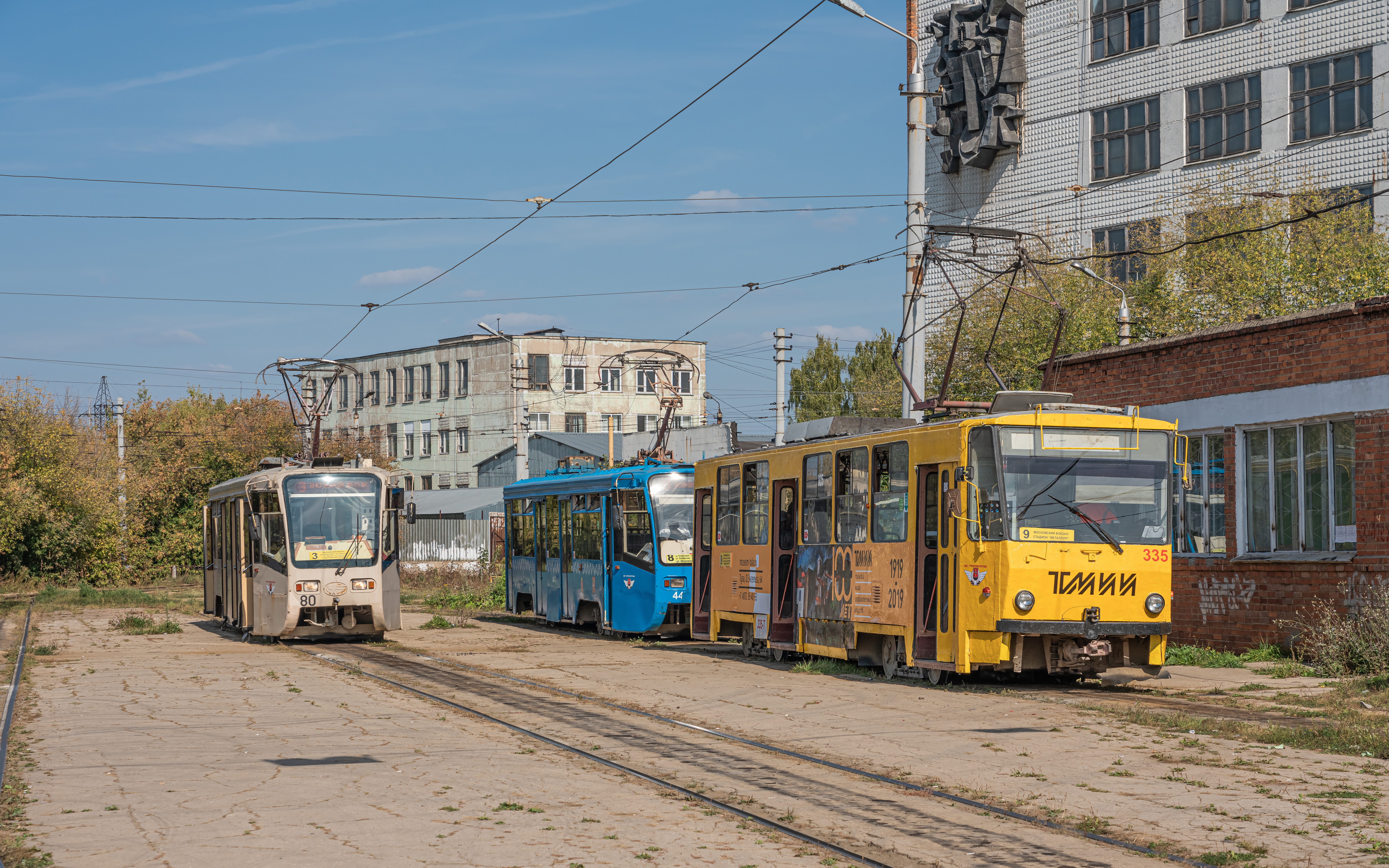 Trams near Moskovsky railway station in Tula, Russia